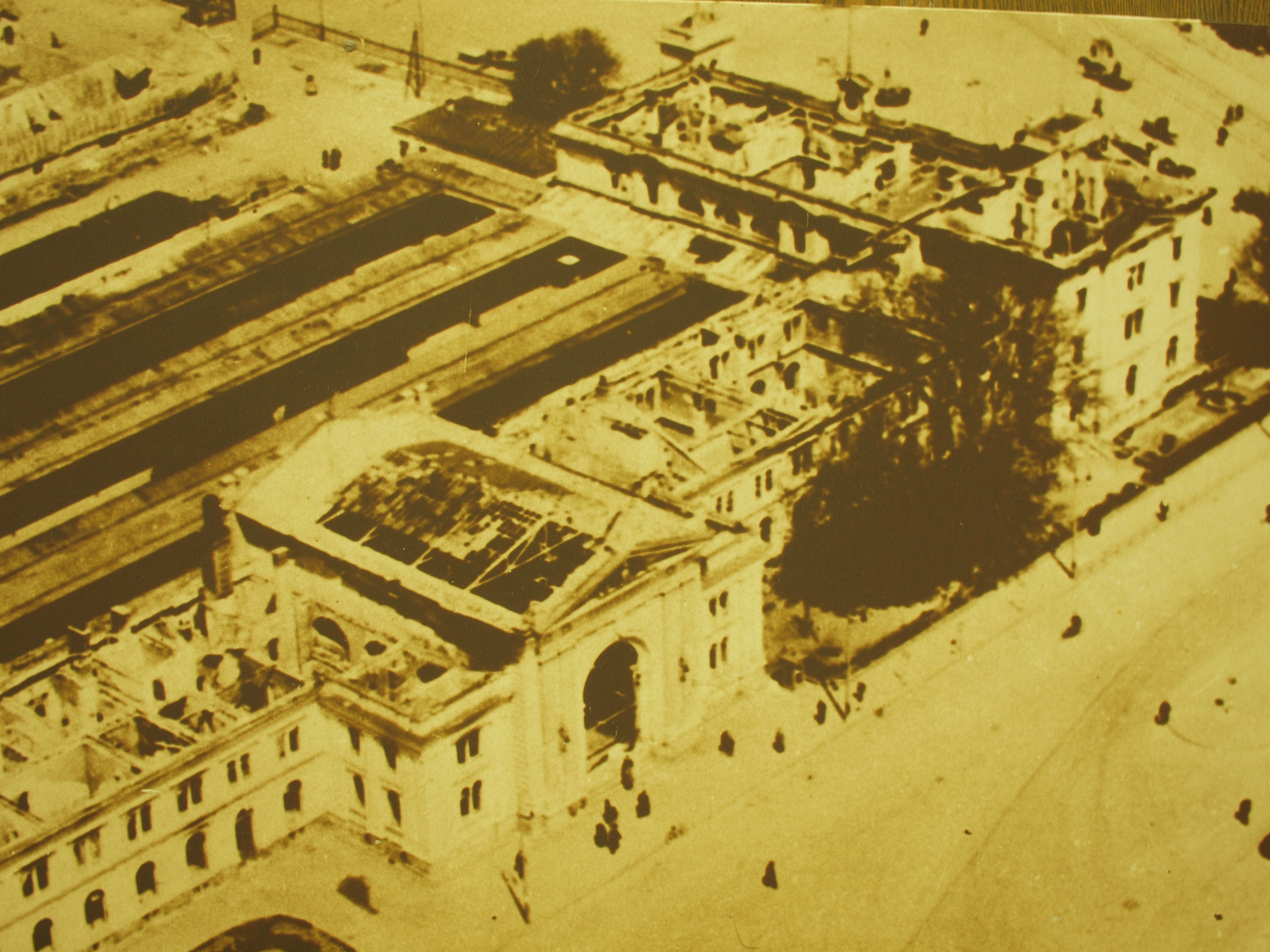 1941 bombardment main railway station BG